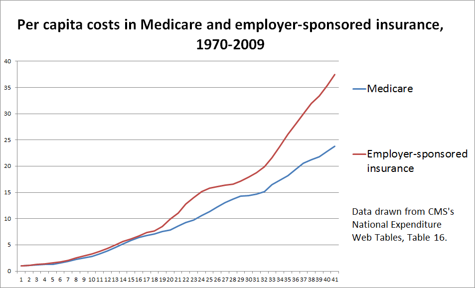 For the sake of comparison, per capita costs in 1970 are set to 1. The red line represents private insurance cost growth and the blue line represents cost growth in Medicare.